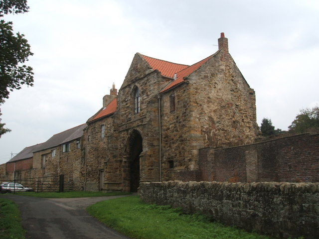 Kepier Hospital gate house 1333.